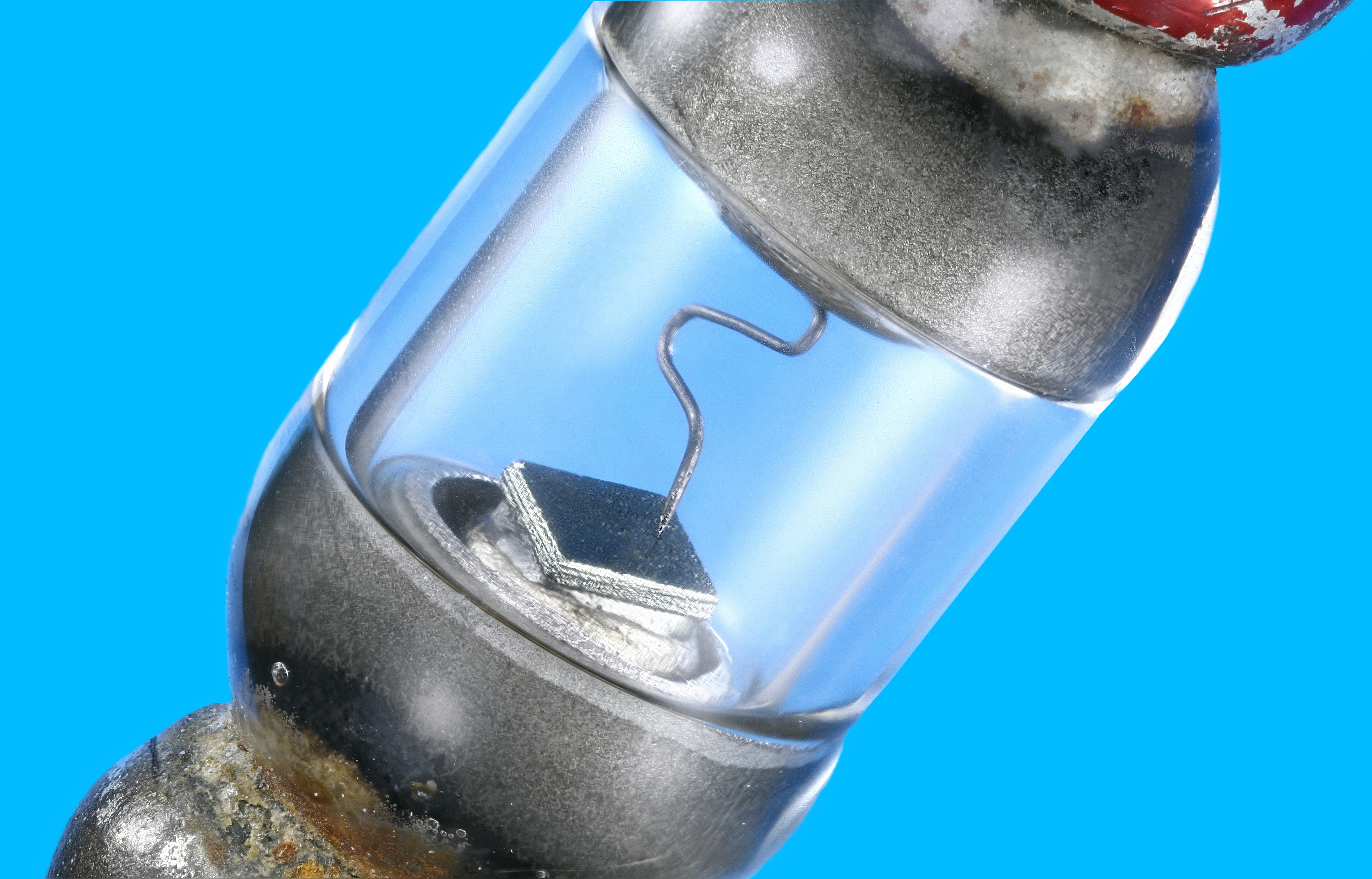 Д2Б Germanium Point Contact Detector Diode. This was the second model of all Soviet detector diodes, the first release started in 1957. A very reliable old germanium point contact detector diode. Produced in the Soviet Union, mid 1970s. (Maximum rating: 30V / 16mA)